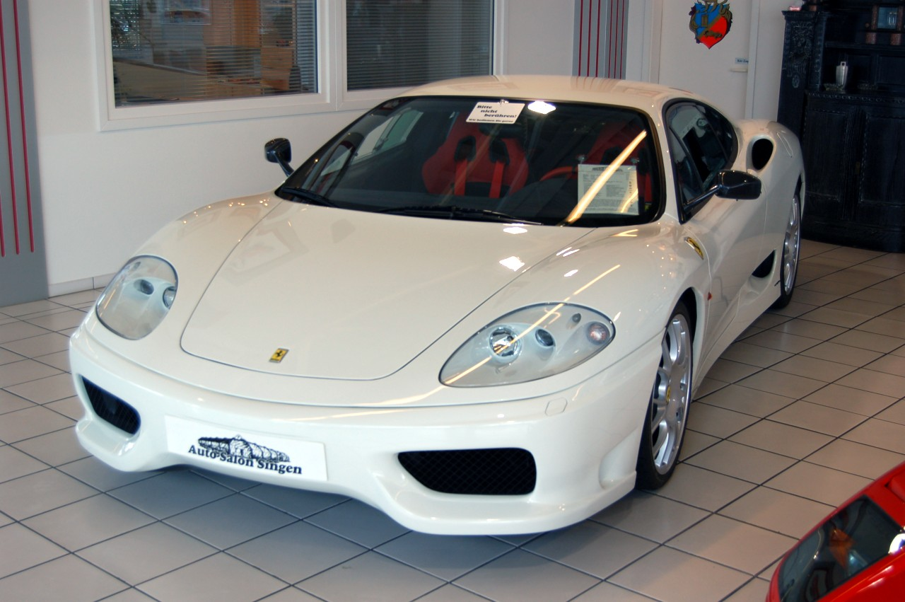 Ferrari 360 Challenge Sradale at Auto Salon Singen, Germany